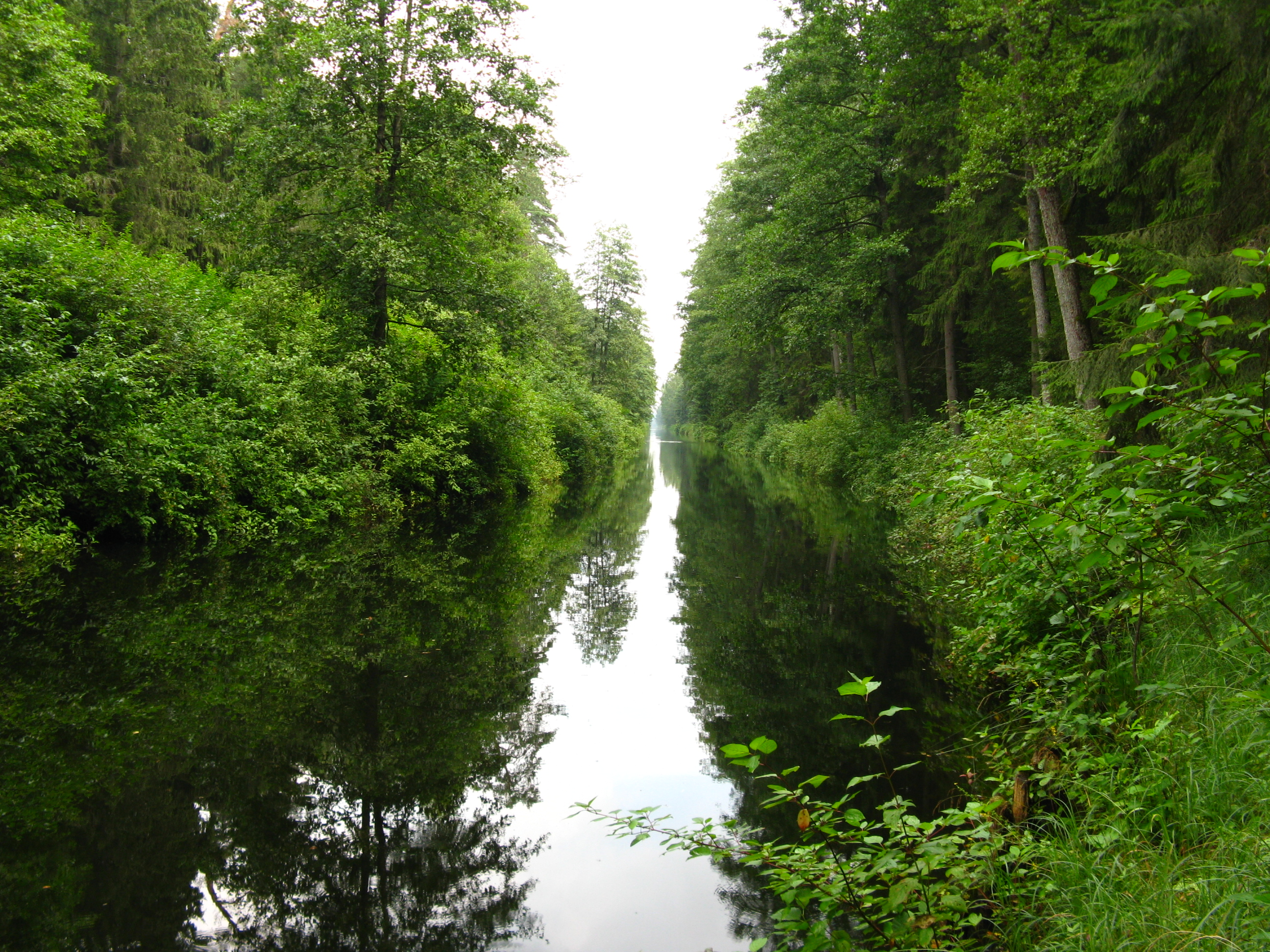 Augustów Canal between Średnie lake and Gorczycie lake